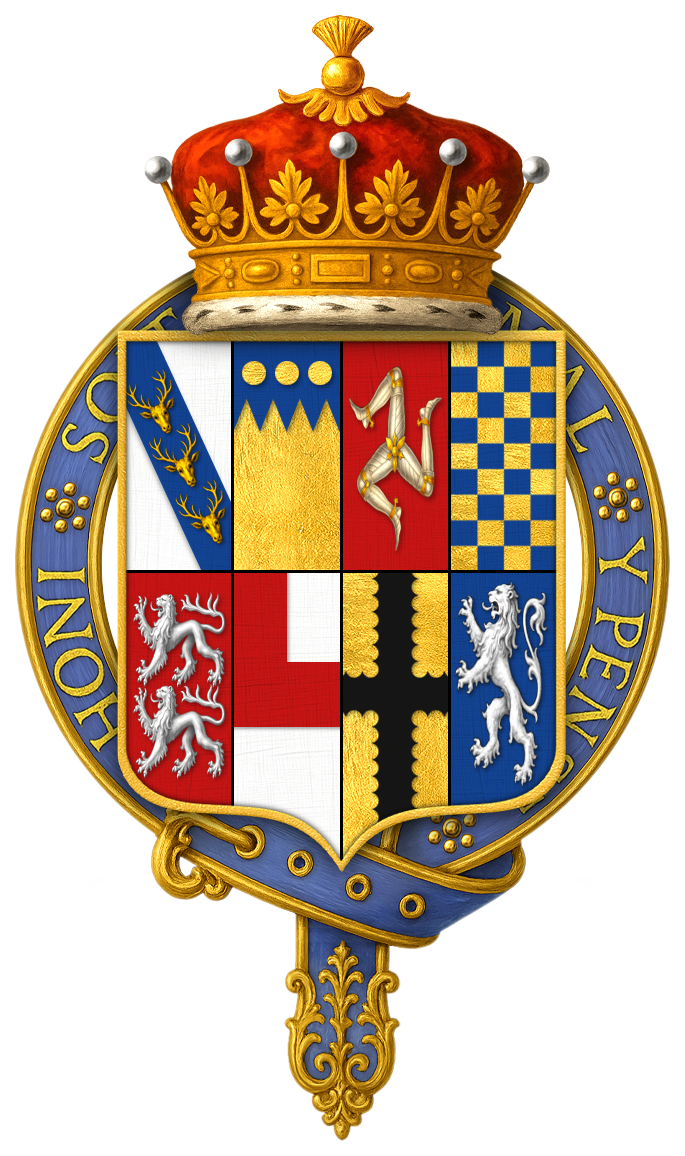 Coat of arms of Sir Edward Stanley, 3rd Earl of Derby, KG Based on the heraldic illustration of Derby's arms in the Tudor herladic collection at the Bodleian Libraries, University of Oxford (MS.Rawl. b.39, p.9) The illustration is currently viewable on the Bodeian website.